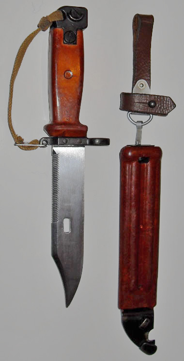 6H4-type bayonet of the AKM and AK74 assault rifles. The 6H4 blade forms a wire-cutting device when coupled with its scabbard. The polymer grip and upper part of the scabbard provide insulation from the metal blade and bottom part of the scabbard to safely cut electrified wire.